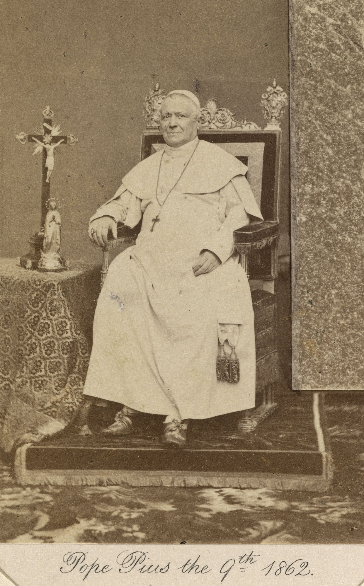 Portrait of Pope Pius IX.